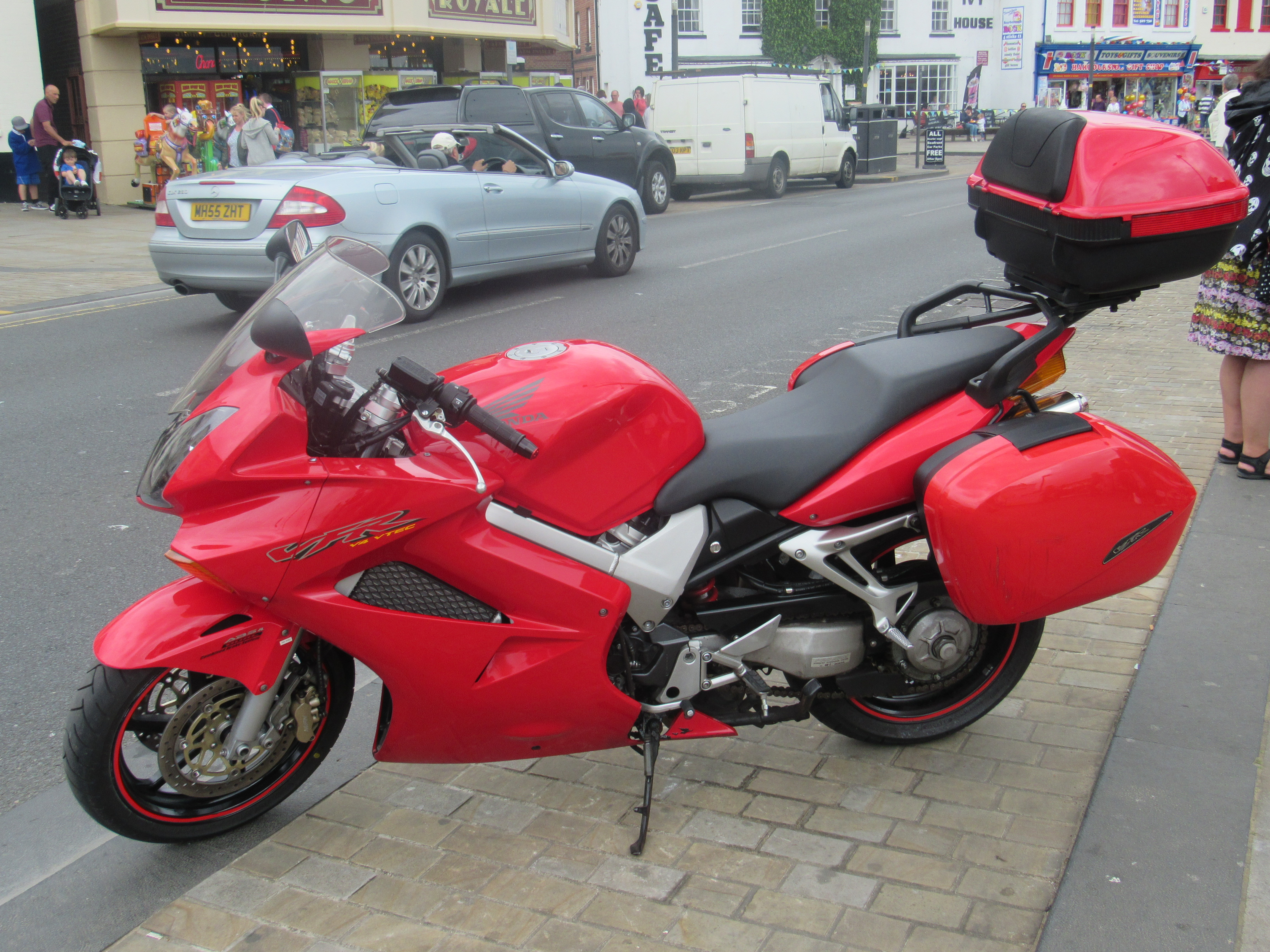 2003 Honda VFR 800 A-3 Taken in Scarborough, North Yorkshire